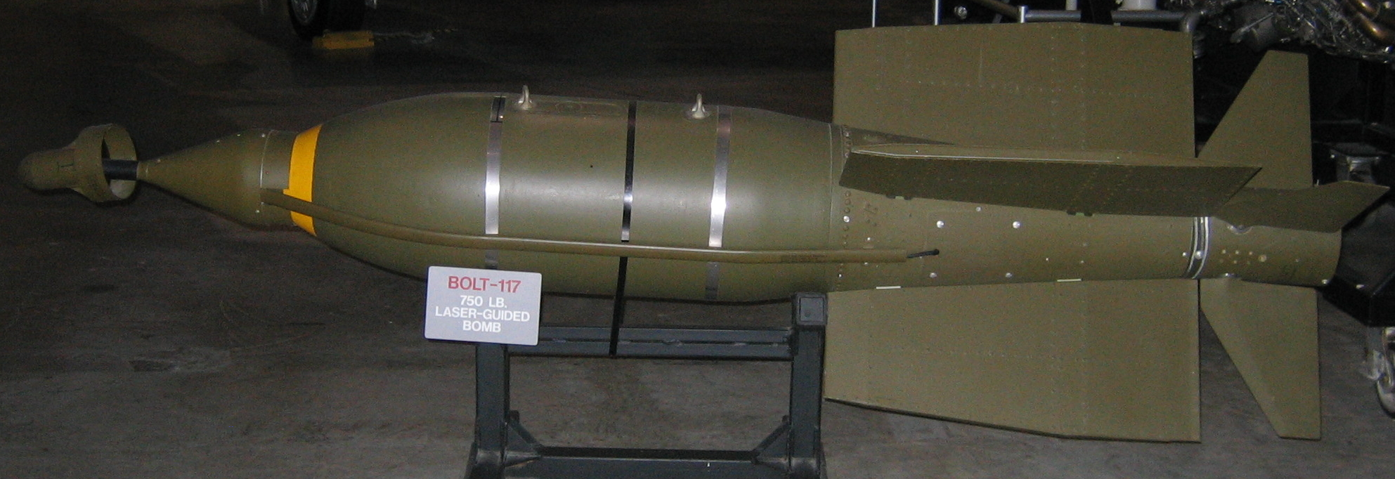 BOLT-117 at the National Museum of the United States Air Force, Dayton, Ohio